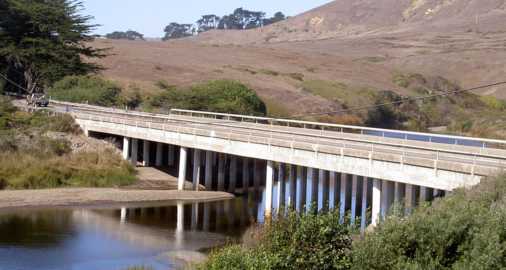 California State Route 1 crossing Salmon Creek on 200-ft concrete continuous slab, Sonoma County, California, USA